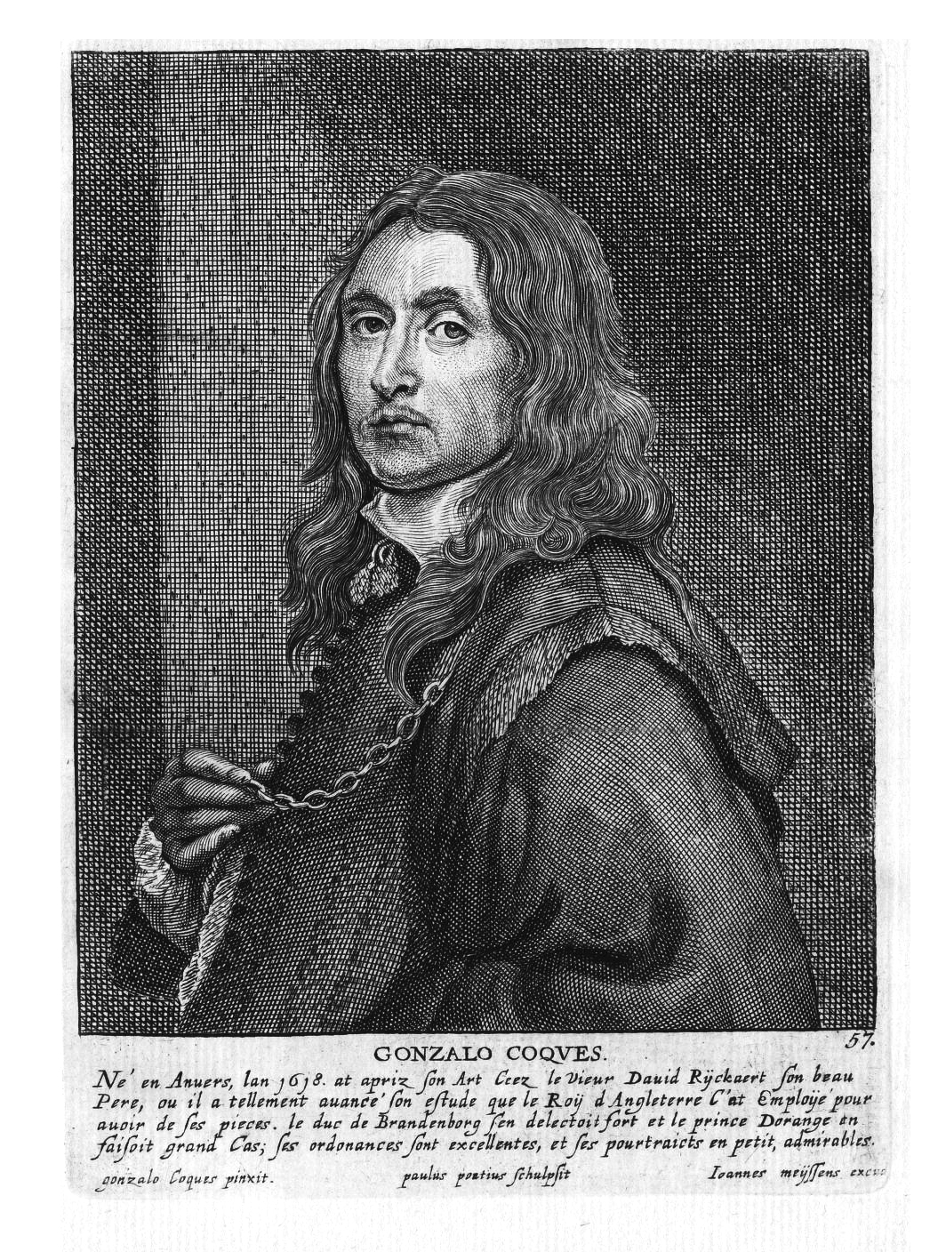 (after a self-portrait)